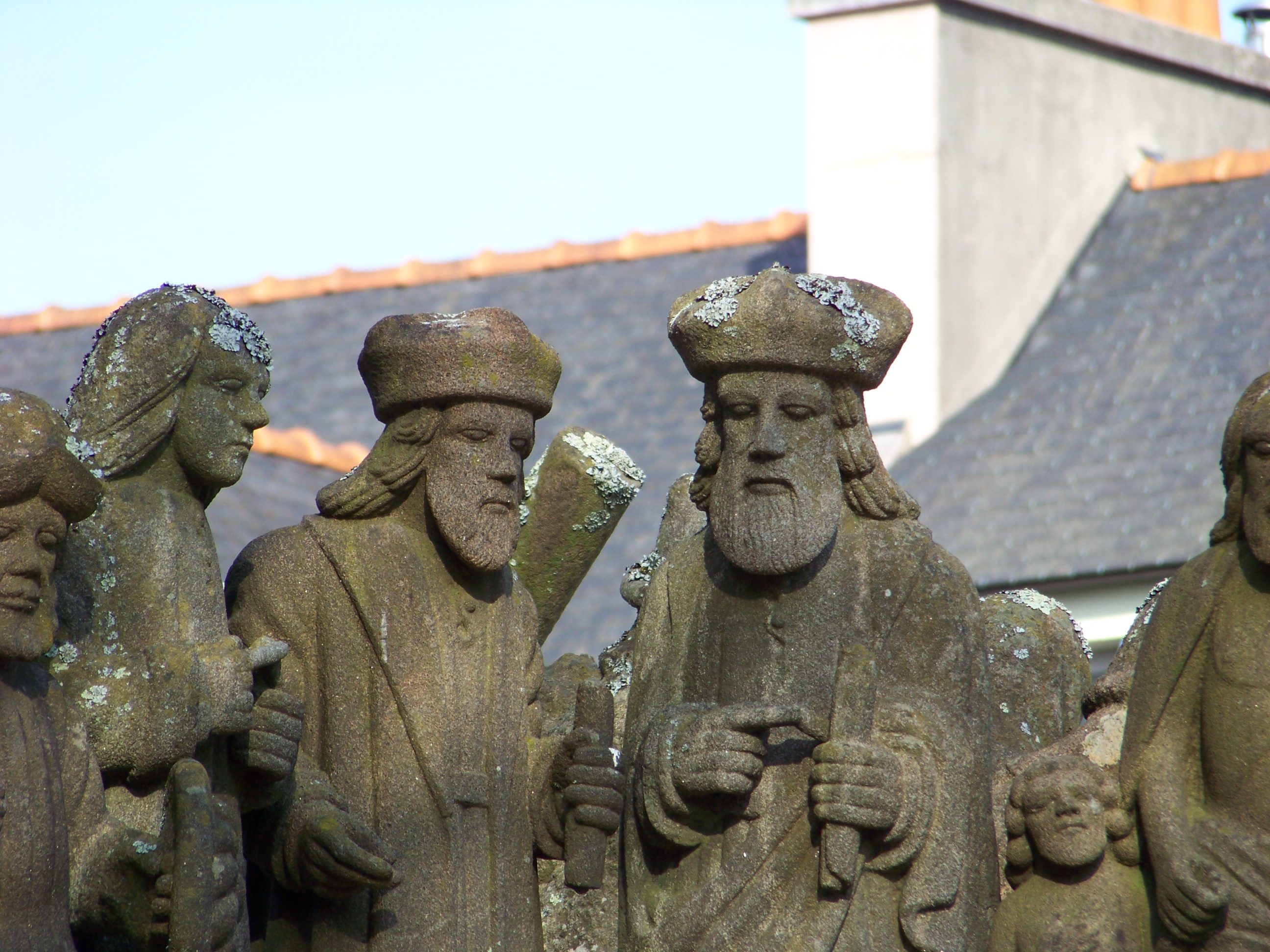 The Last Judgement, The calvary, Plougastell Daoulaz, Finistere, Brittany .